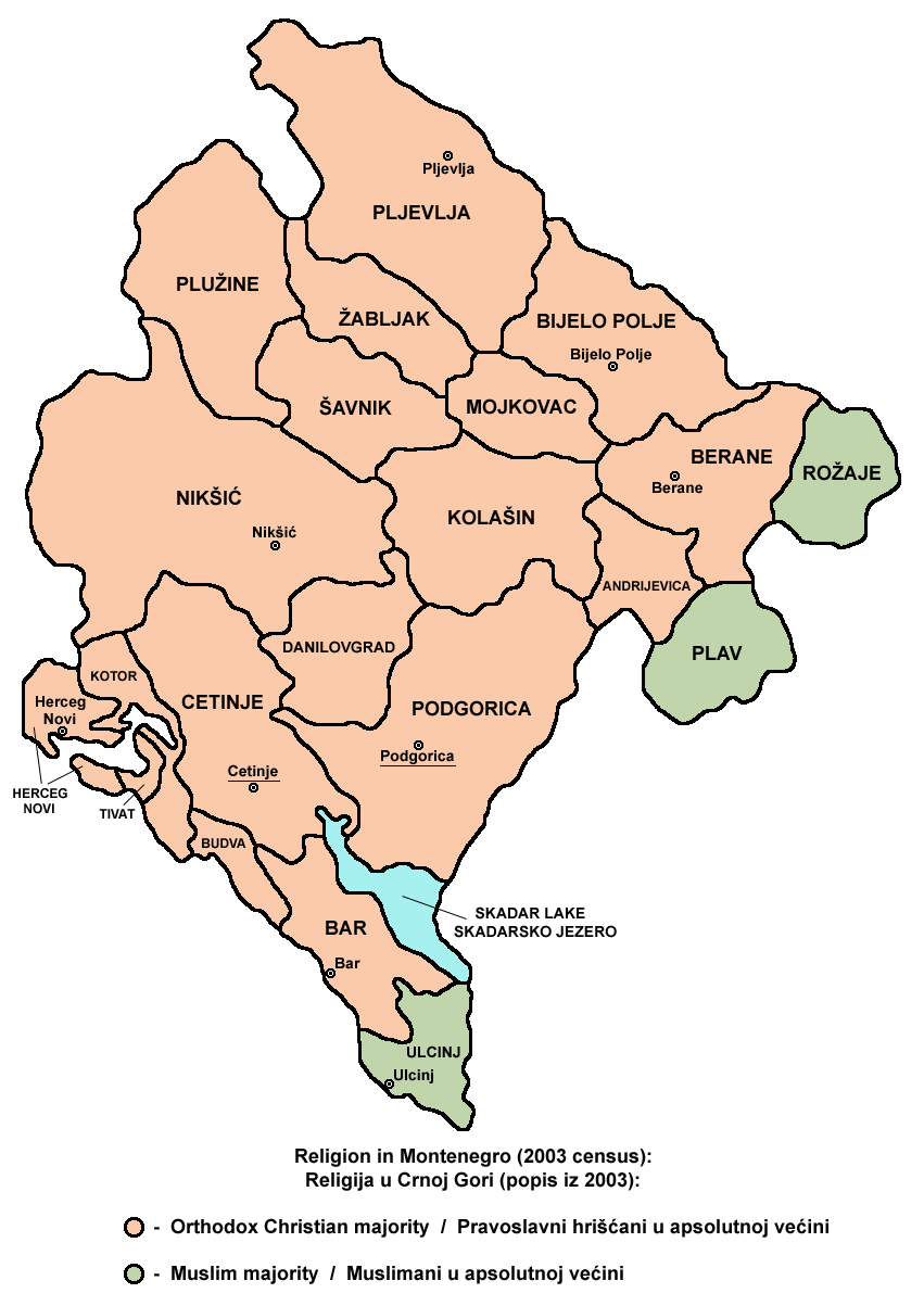 Religion in Montenegro (2003 census) - data by municipalities.Montenegrin/Serbian: Religija u Crnoj Gori (popis iz 2003) - podaci po opštinama.